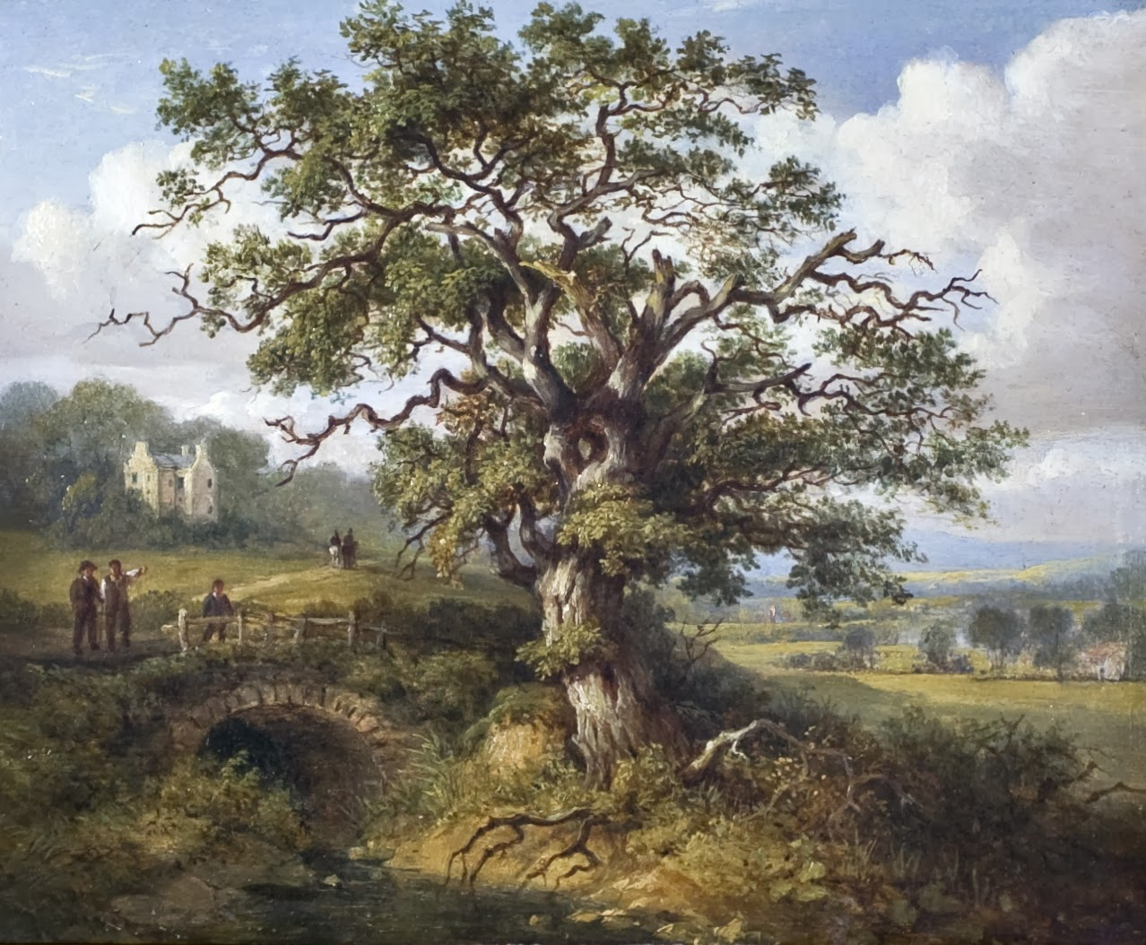 Wallace Oak Jane Nasmyth died 1867 Guess date at 1850